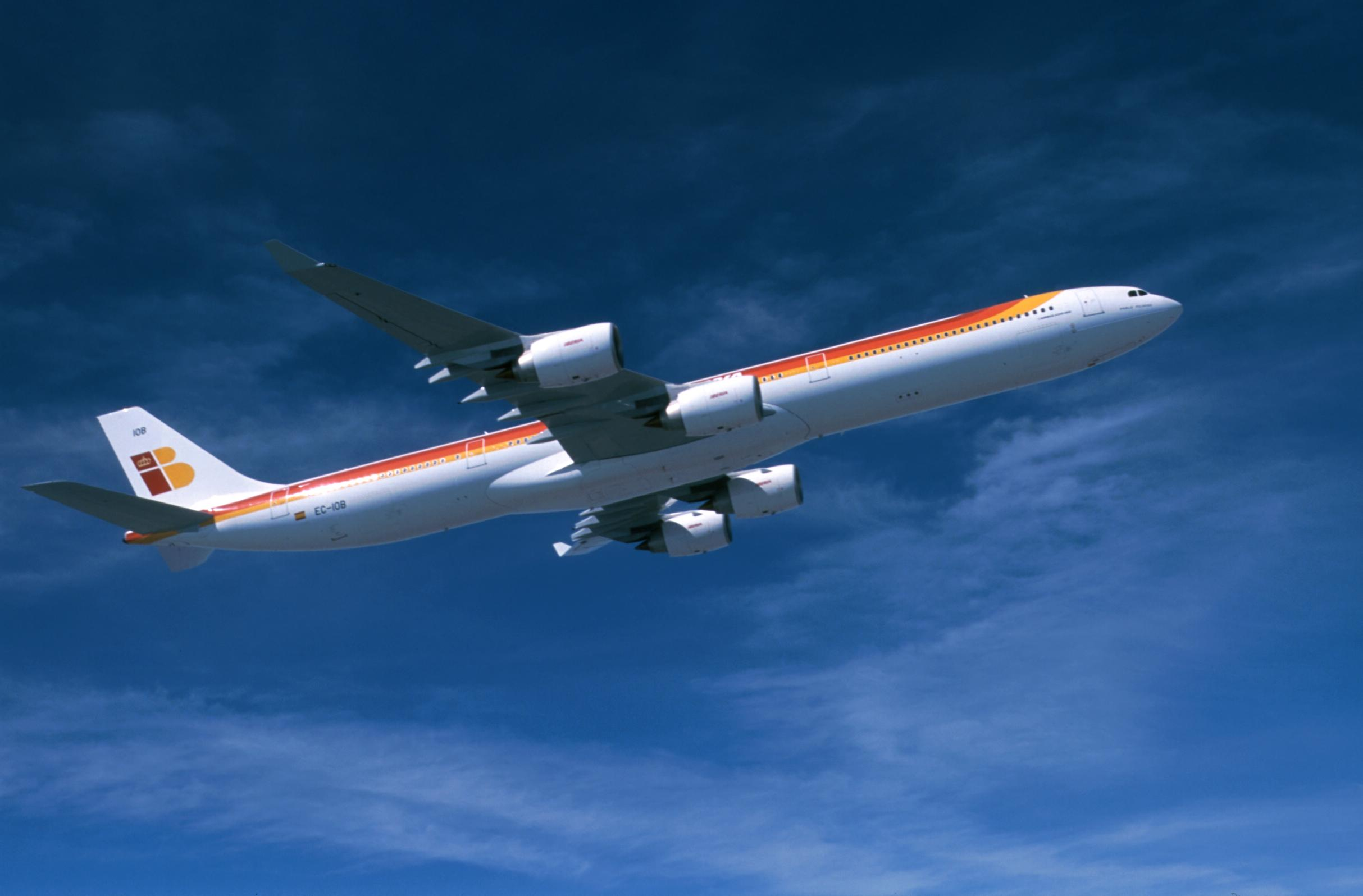 An Iberia Airbus A340-600 photographed in flight